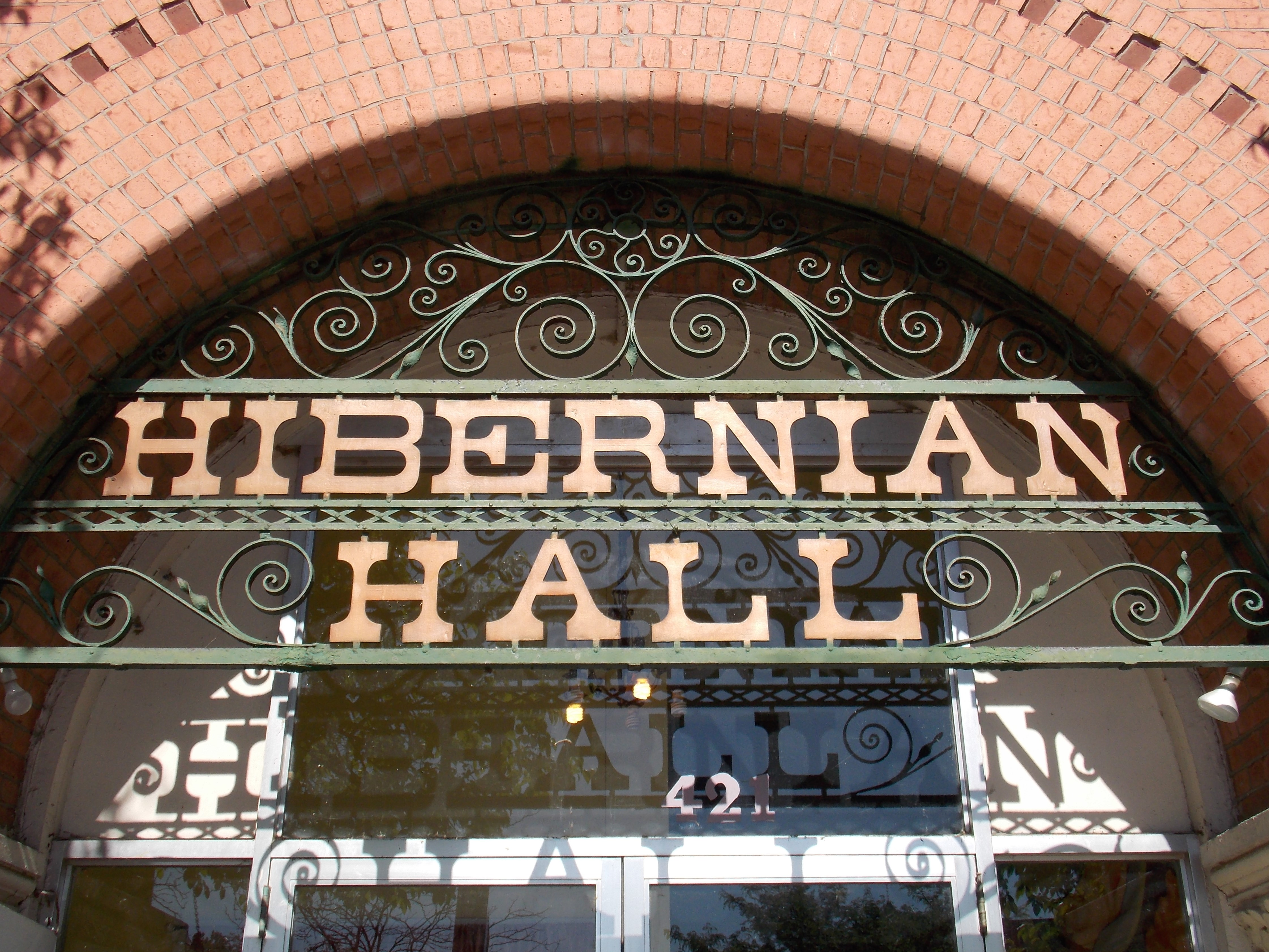 The sign above the main entrance of the Hibernian Hall in downtown Davenport, Iowa.